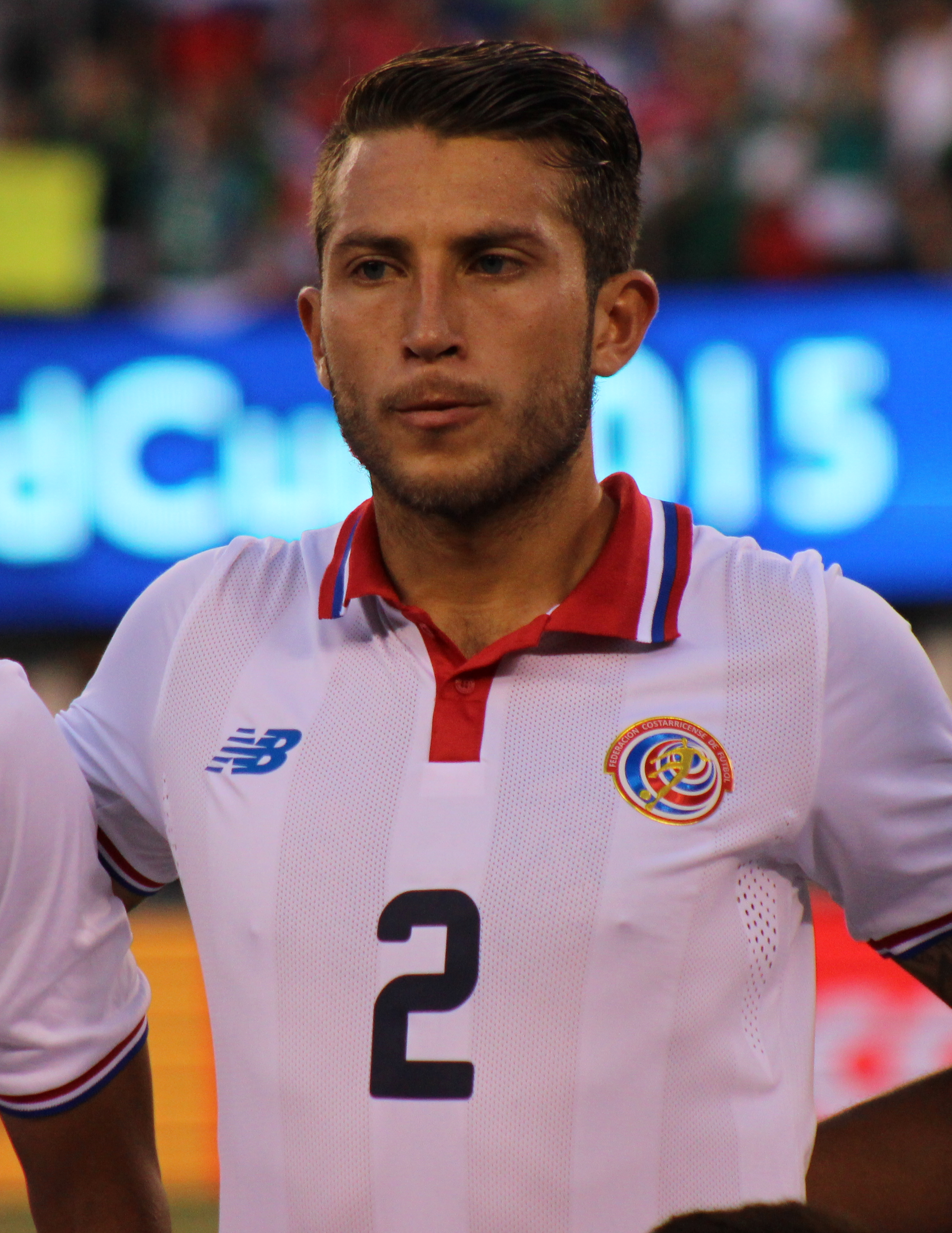 Francisco Calvo, player for Costa Rica national team in July 2015.